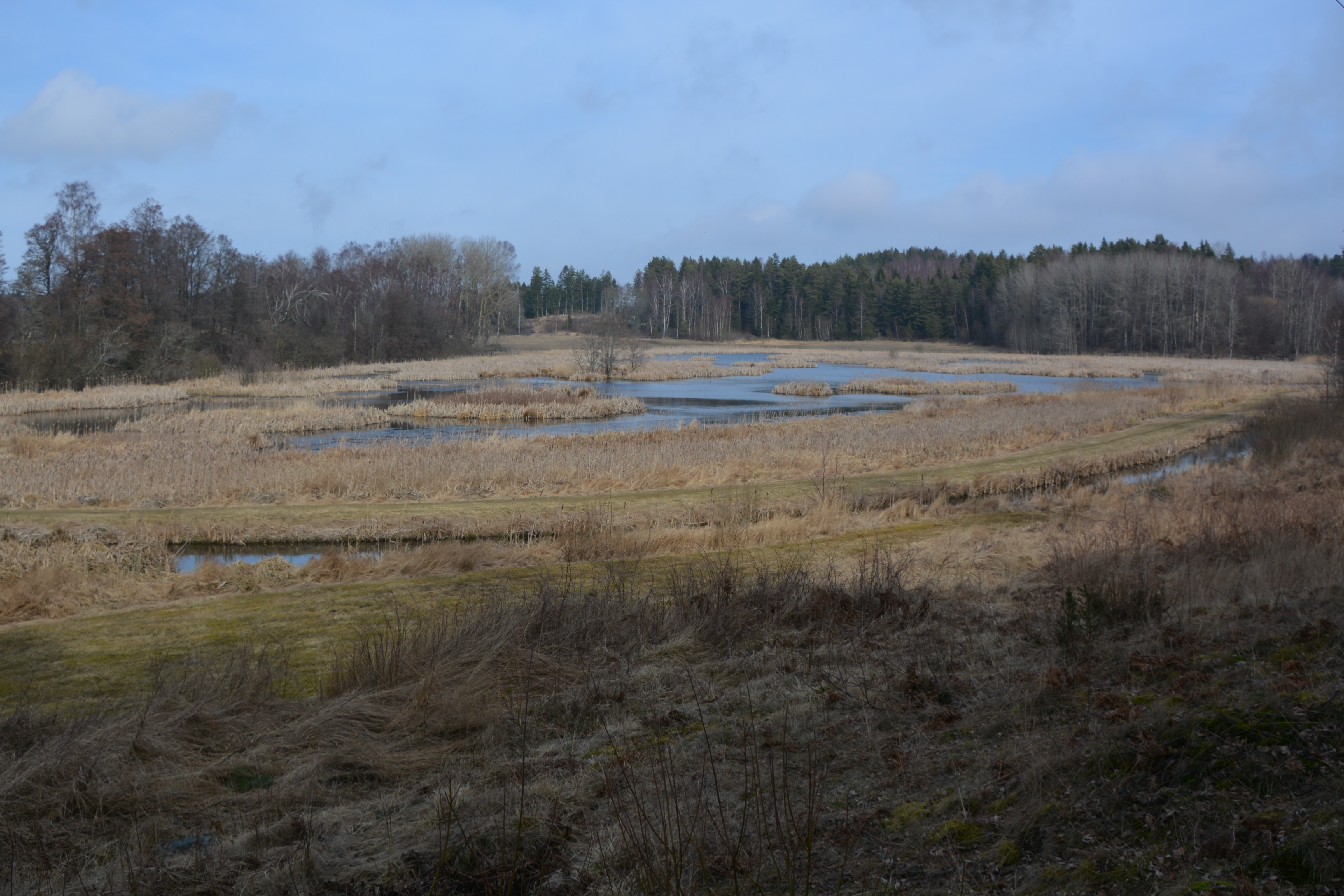 Starrträsk, Alhagens våtområde i Nynäshamn, fotograferat i slutet av mars 2016